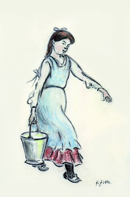 Heinrich Zille: Wasserträgerin. Crayon and coal on thin paper. 20 x 13.3 cm